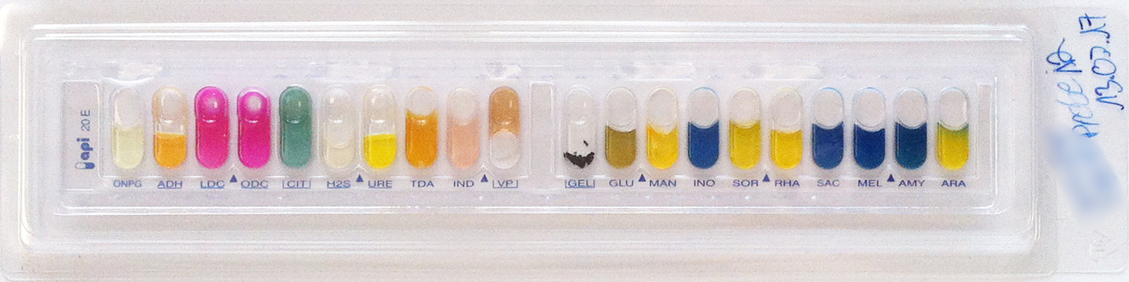 API® 20E test strip, a standardized and miniaturized testing system for fast identification, version of existing techniques in small wells, inoculated with Escherichia coli, incubated for 1 day, numerical profile is 5144512.